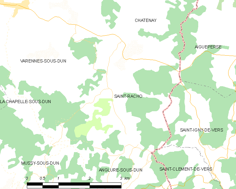 Map of French municipality